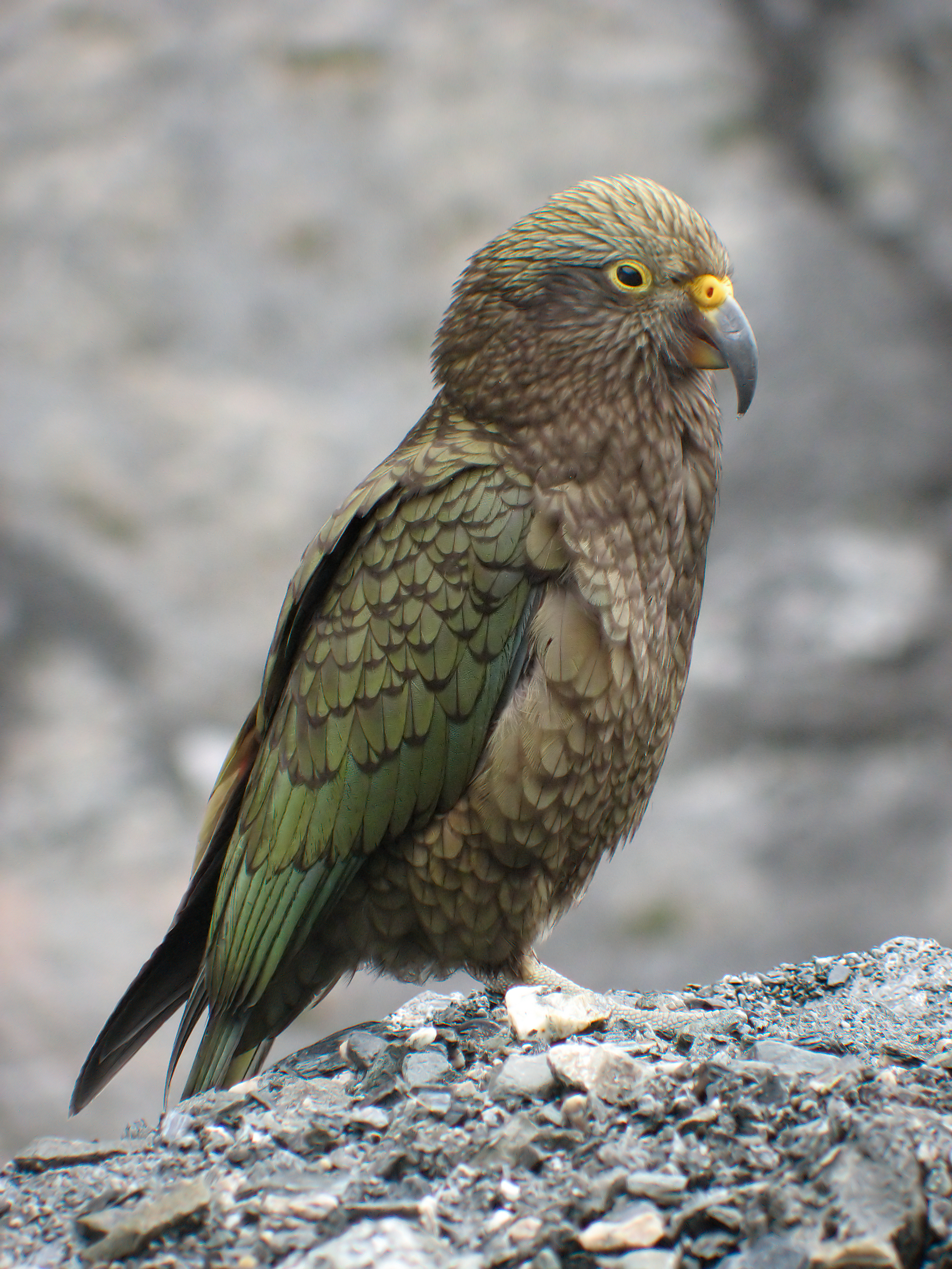 A juvenile Kea (Nestor notabilis) perching on some rubble on the Franz Josef Glacier, New Zealand.